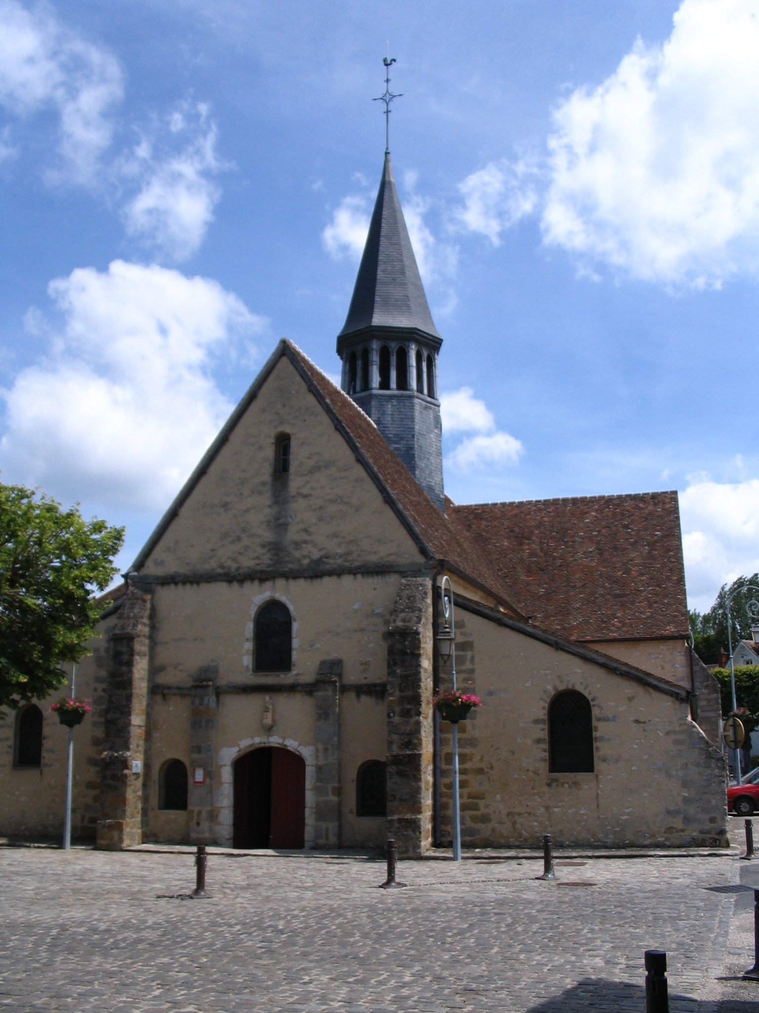 St.Amandus' church, in Thomery, Seine-et-Marne, France.